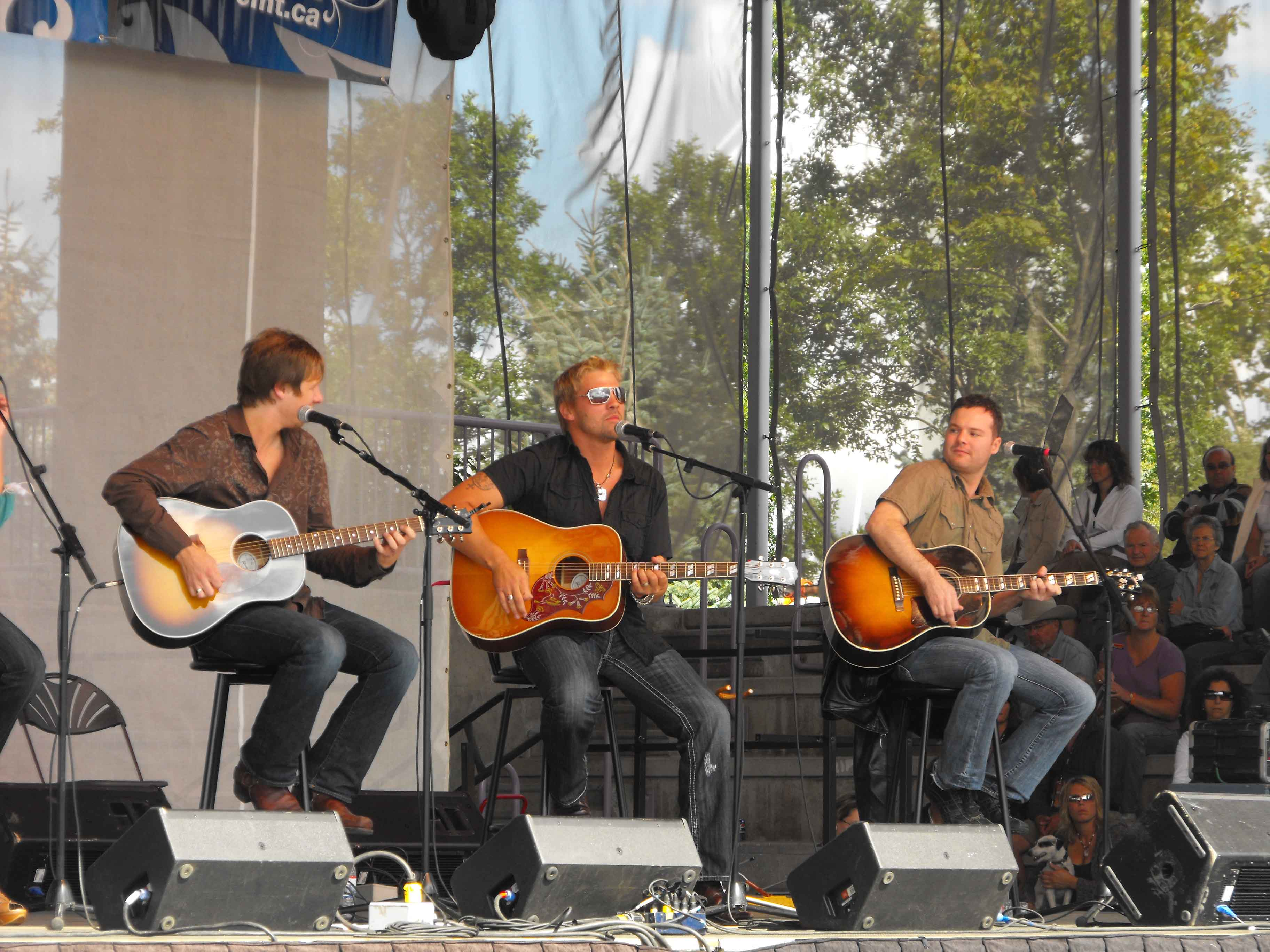 Doc Walker